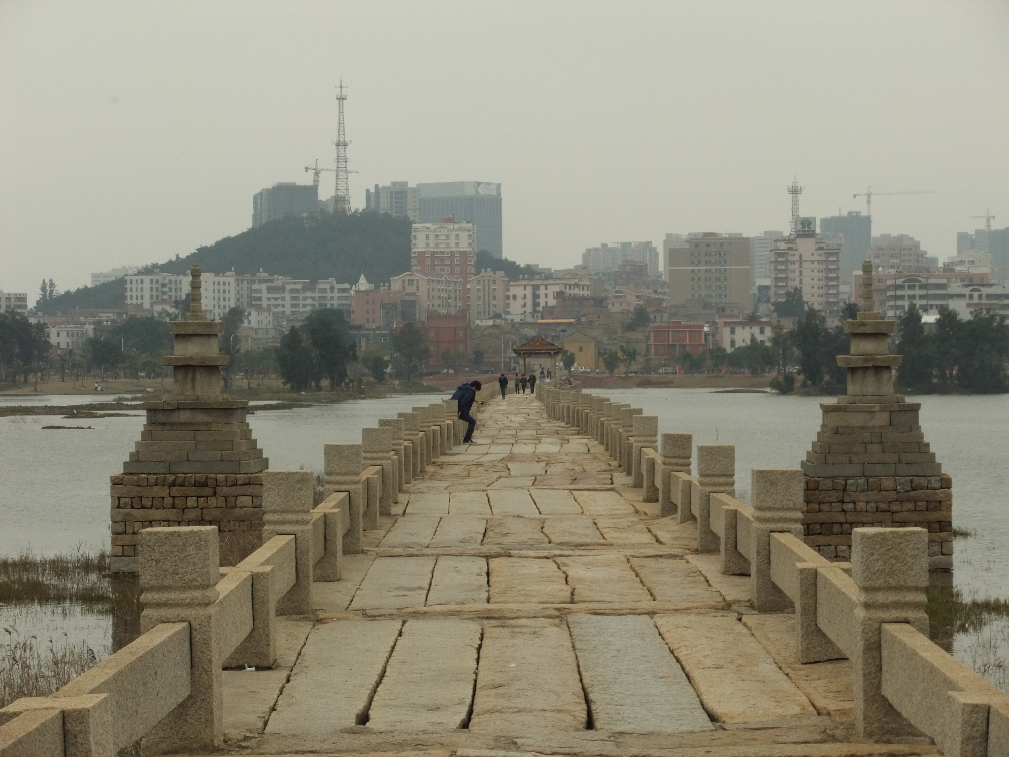 The west-central part of Anping Bridge (west of the main channel of the Shijing River, east of Xinxing Gong. This part is within Shuitou Town. Looking west, toward Xinxing Gong and Shuitou Town center.